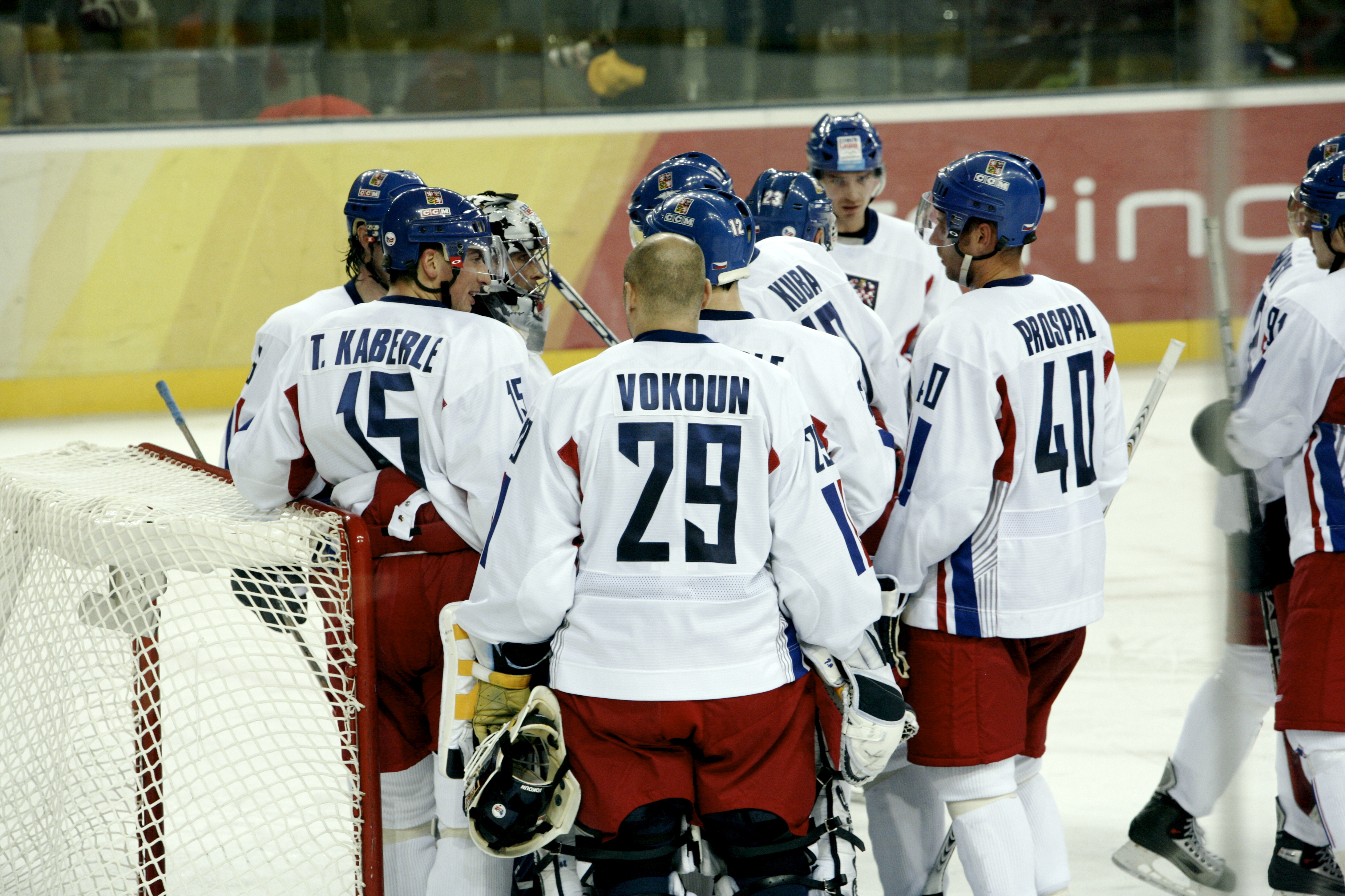 Czech Republic men's national ice hockey team players in Winter Olympics 2006.